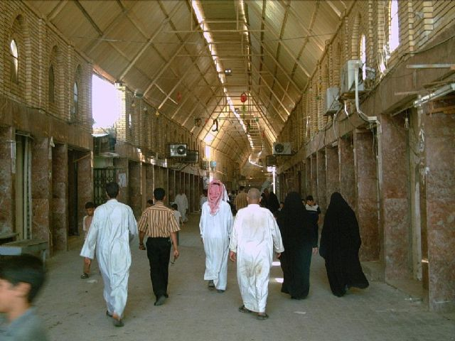 The covered market in Central Samawa, is a historic bazaar dating to the Ottoman period.